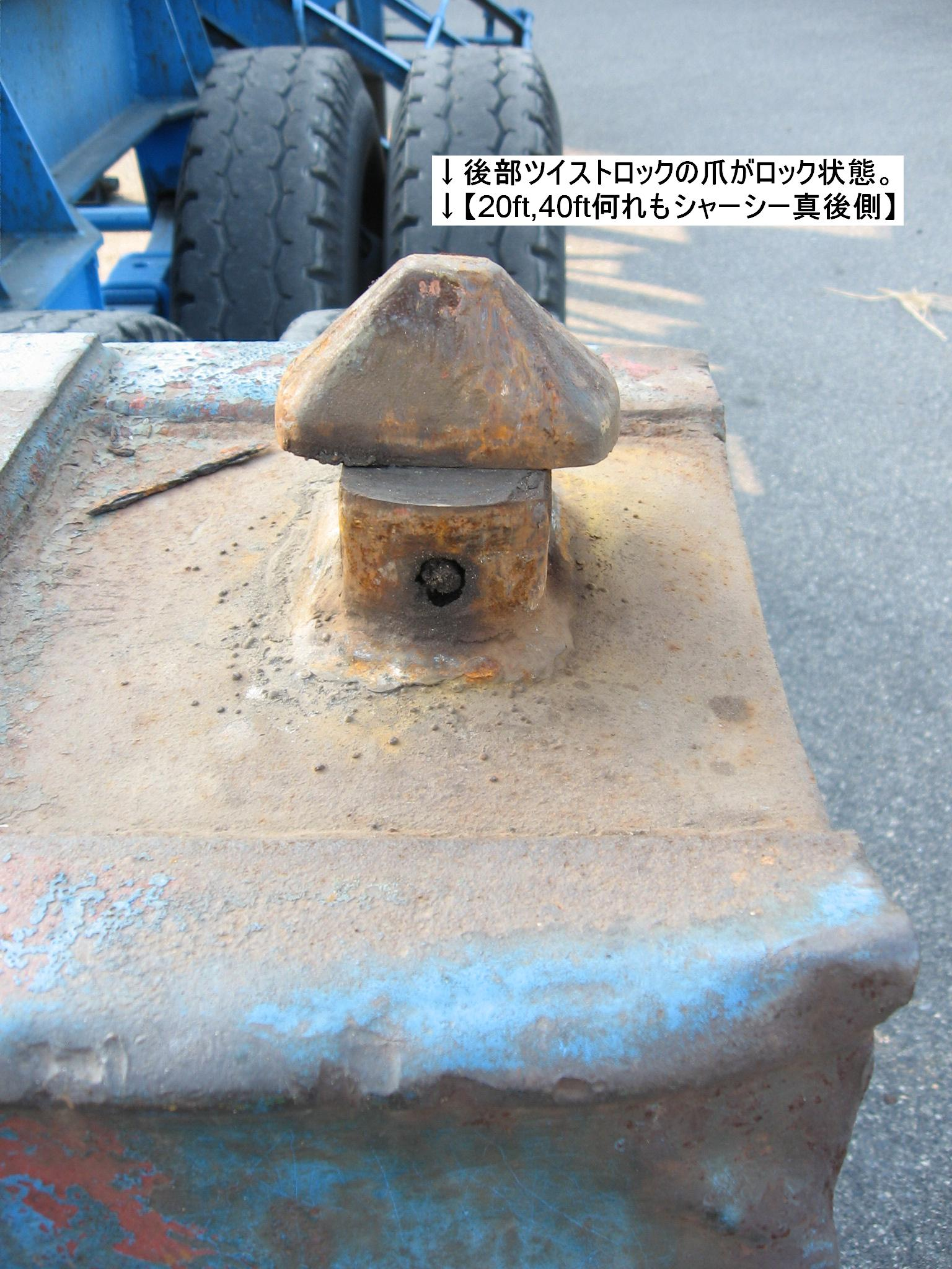 Twistlock connector for container fixing on a trailer, locked situation